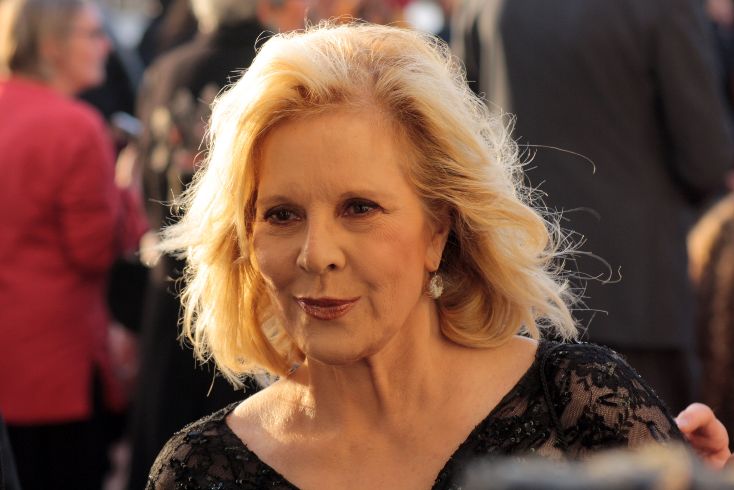 Sylvie Vartan at the 2011 Cabourg Film Festival.